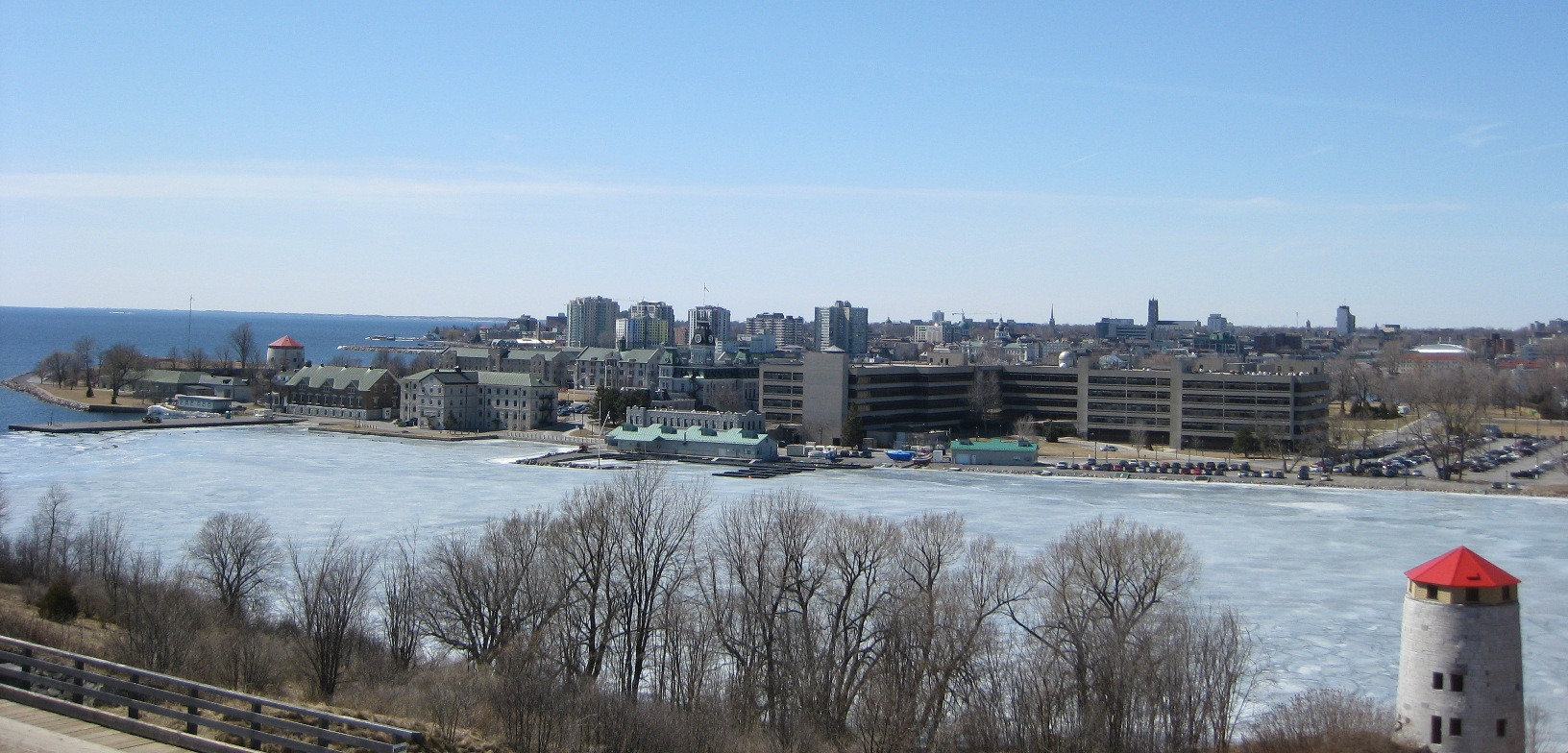 Kingston Skyline from Fort Henry Hill